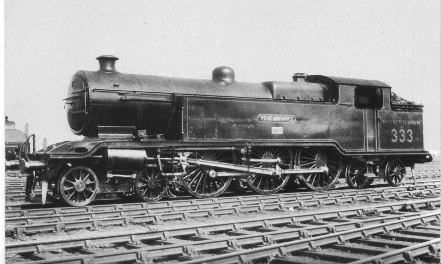 Photograph of former LB&SCR L class 4-6-4T 333 Remembrance taken early in Southern Railway ownership.